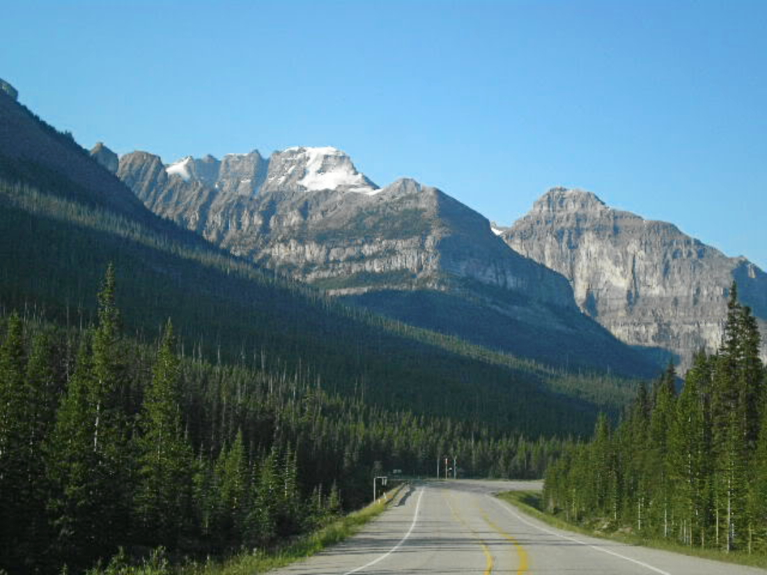 Stanley Peak (3153 m) as seen from Vermillion Pass on Highway 93. Kootenay National Park, BC, Canada